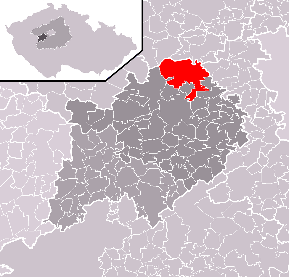 Location of Chyňava municipality within Beroun District and administrative area of Beroun as a Municipality with Extended Competence.